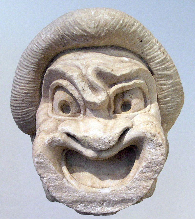 Theatre mask representing the type of the First Slave of New Comedy. Pentelic marble, 2nd century BC. From the Dipylon Gate in Athens.